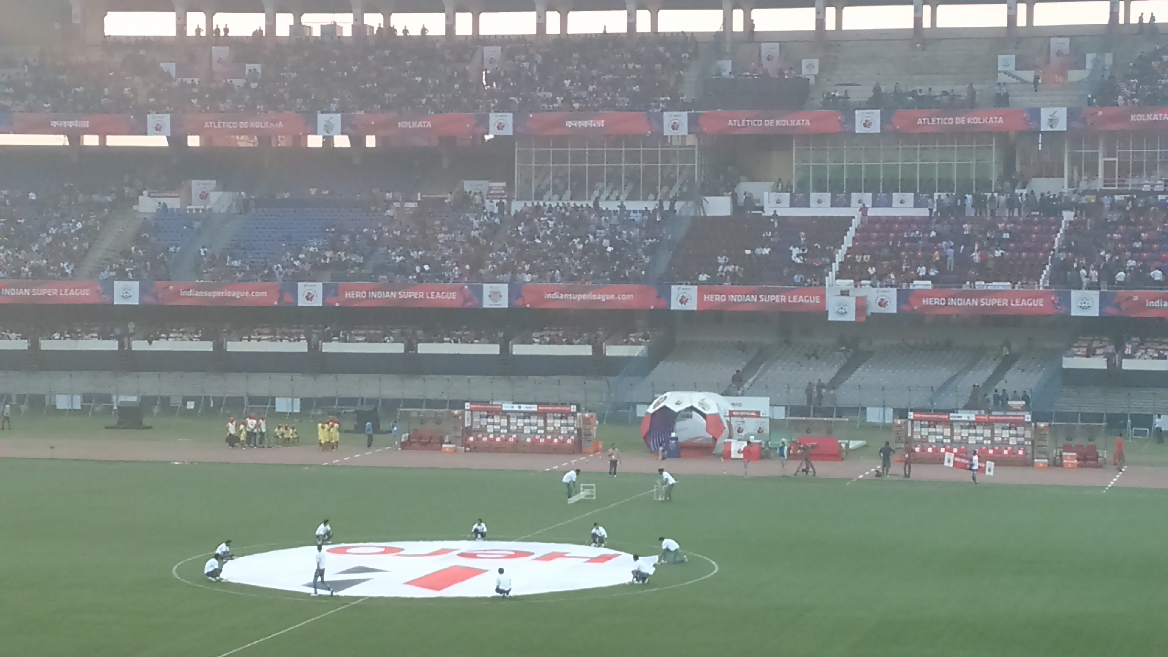 Salt Lake Stadium, Kolkata during Atletico Kolkata vs FC Goa